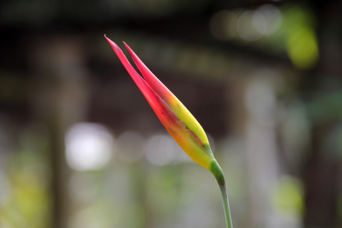 I love high temperature and high humidity and prefer some tree shade. Well-drained and fertile soil that is neutral or subacidic will help me grow well. I am a relatively high-end green plant that widely appear in gardens of southern area in China.